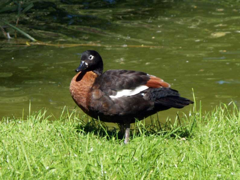 Tadorna tadornoides, a species of Shelducks.